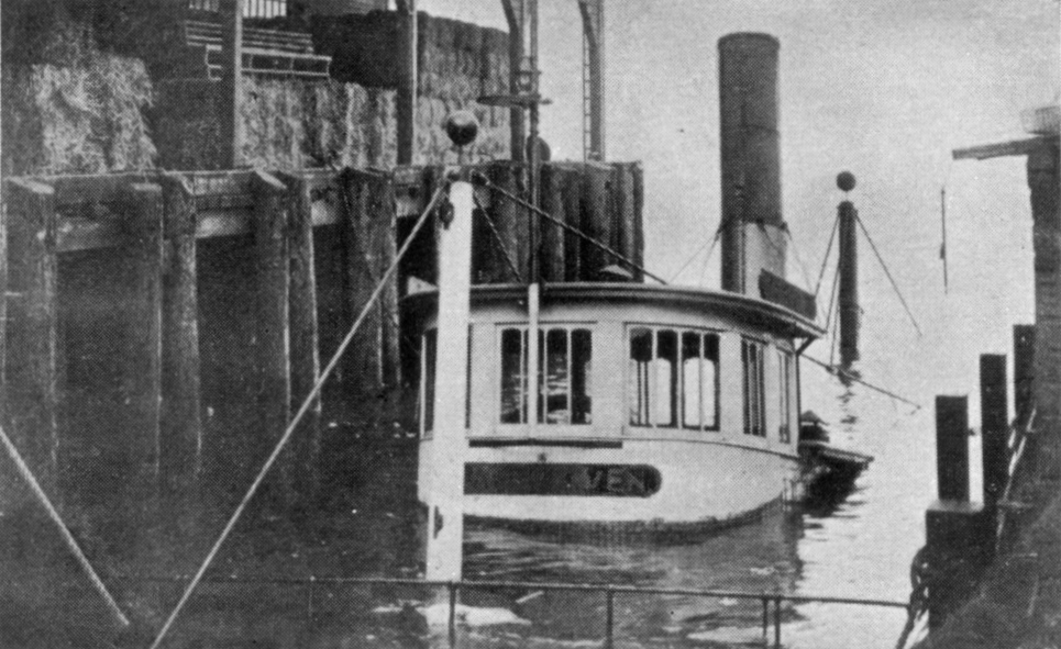 Sternwheeler Fairhaven sunk at mooring.